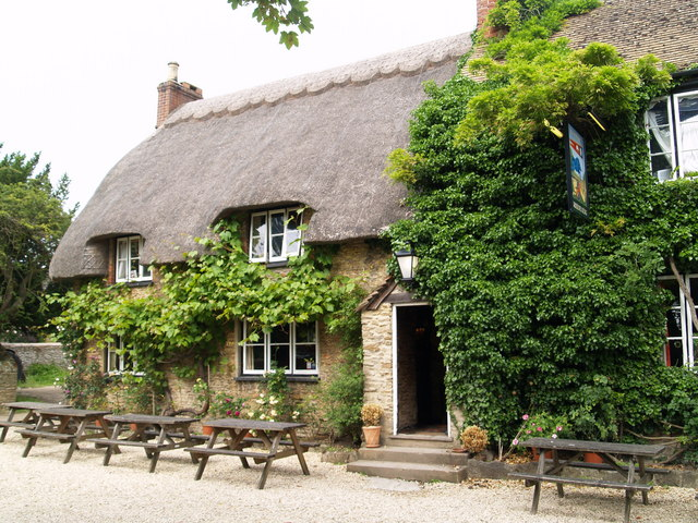 The Blue Boar public house, Longworth, Oxfordshire (formerly Berkshire), seen from the southwest